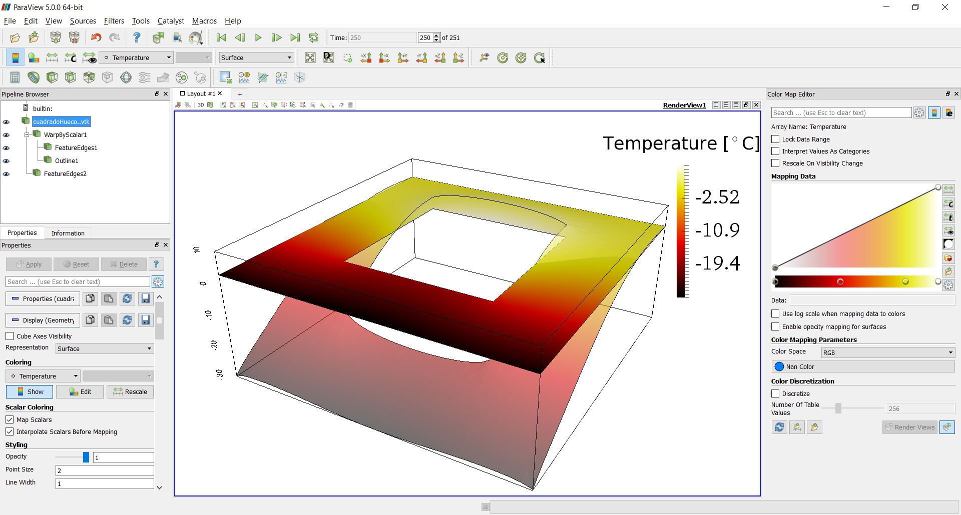 Using ParaView for the visualizing the temperature distribution in a plate with a hole in ParaView. The calculation was done using the Finite Element Method. The color represents the temperature.